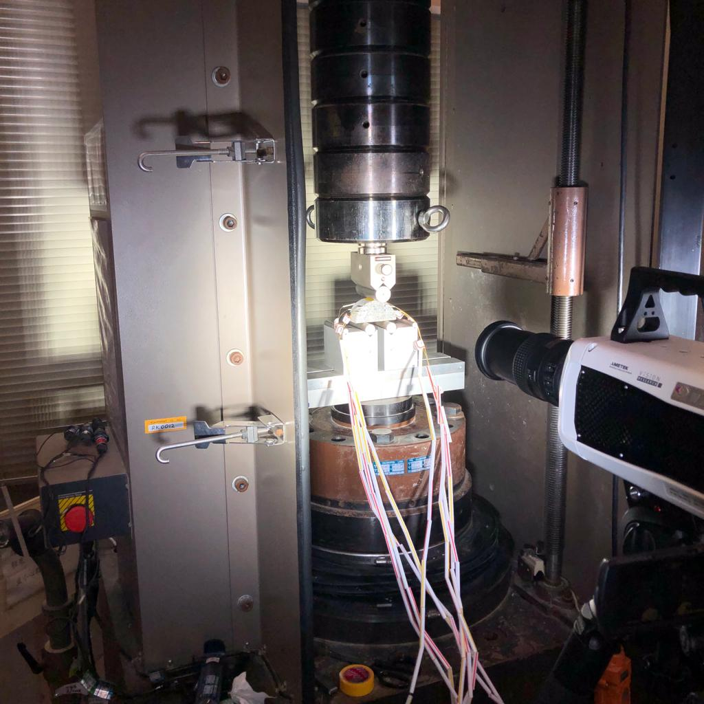 A picture of a rock specimen under the applied loading.